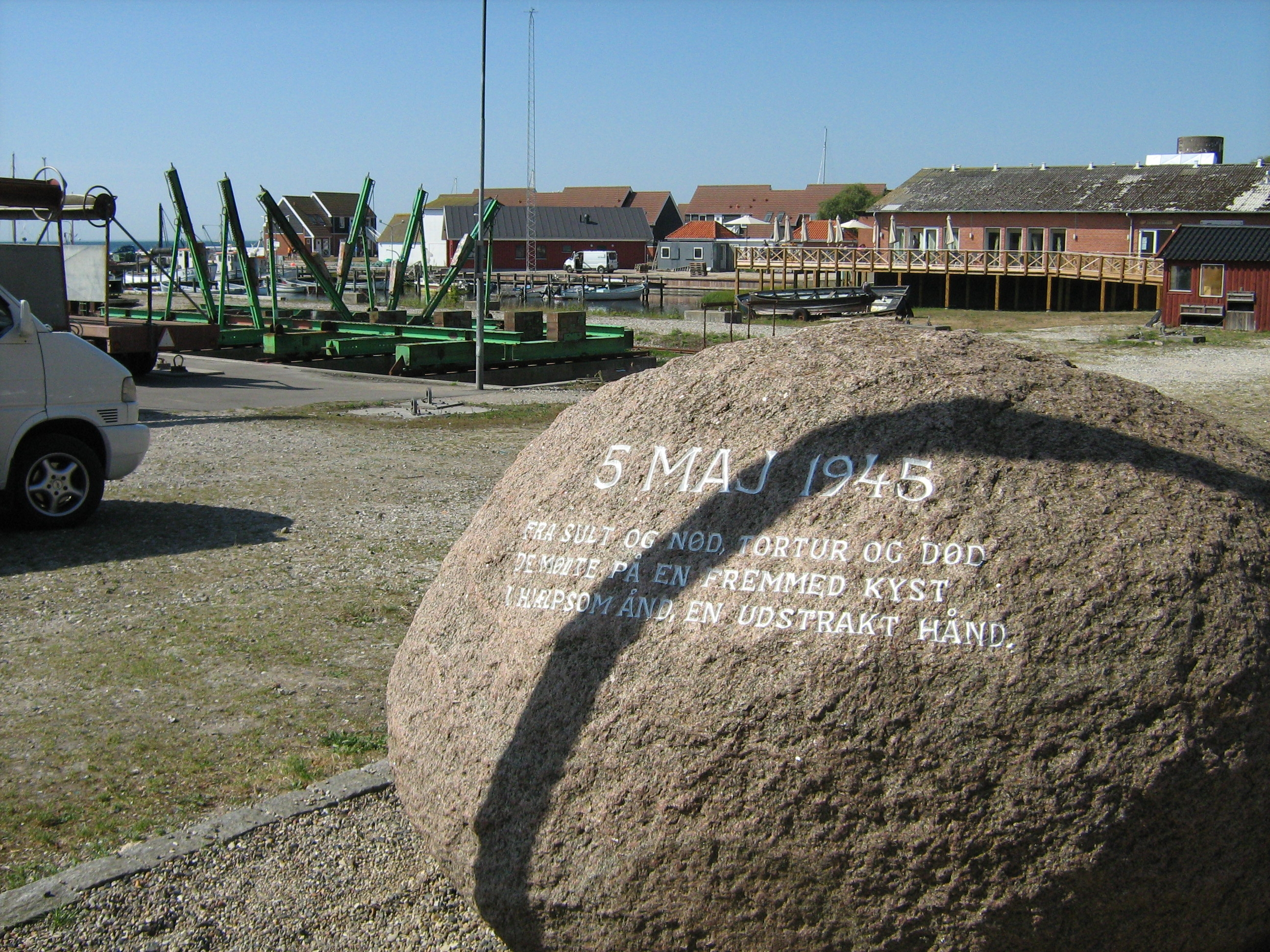 Memorial in Klintolm Havn, Denmark, to prisoners of the Stutthof concentration camp who were rescued after their barge was washed ashore in May 1945.